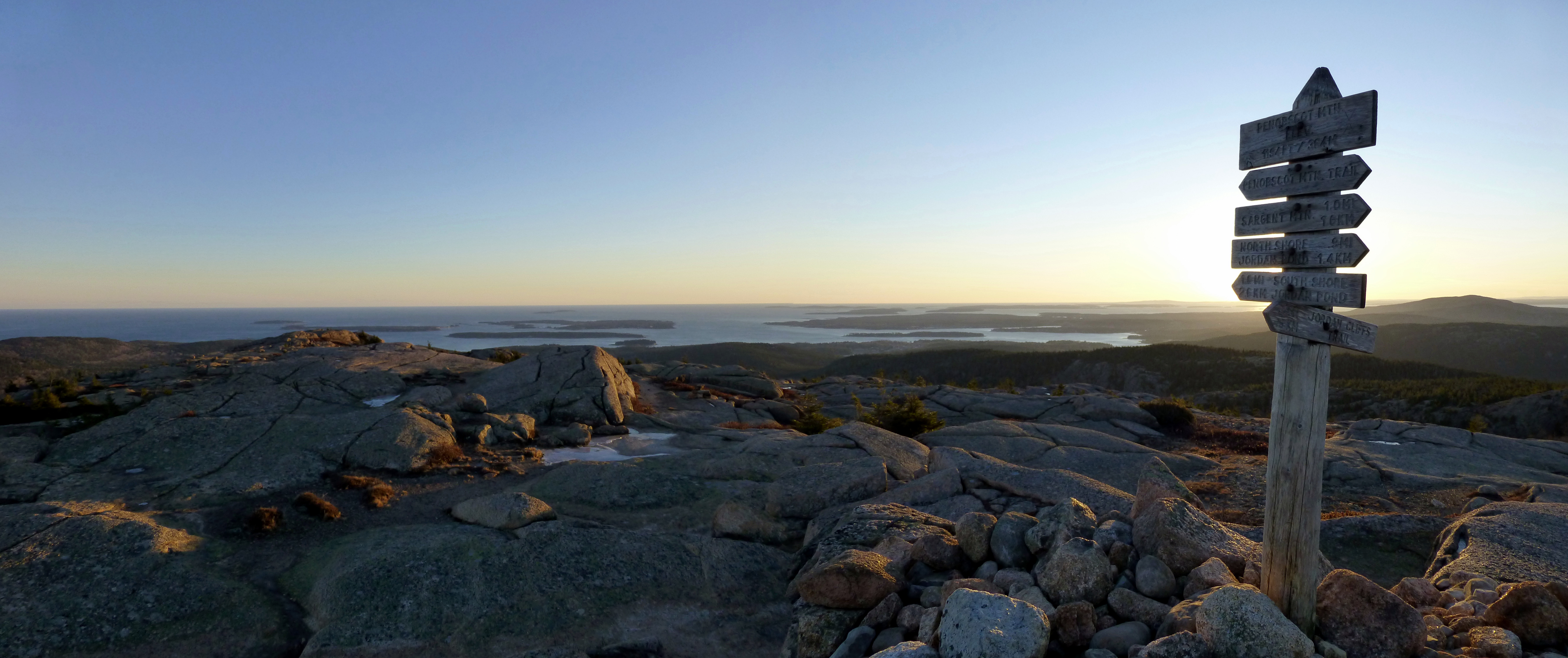 View from the summit of Mt Penobscot, Acadia N.P., Maine.